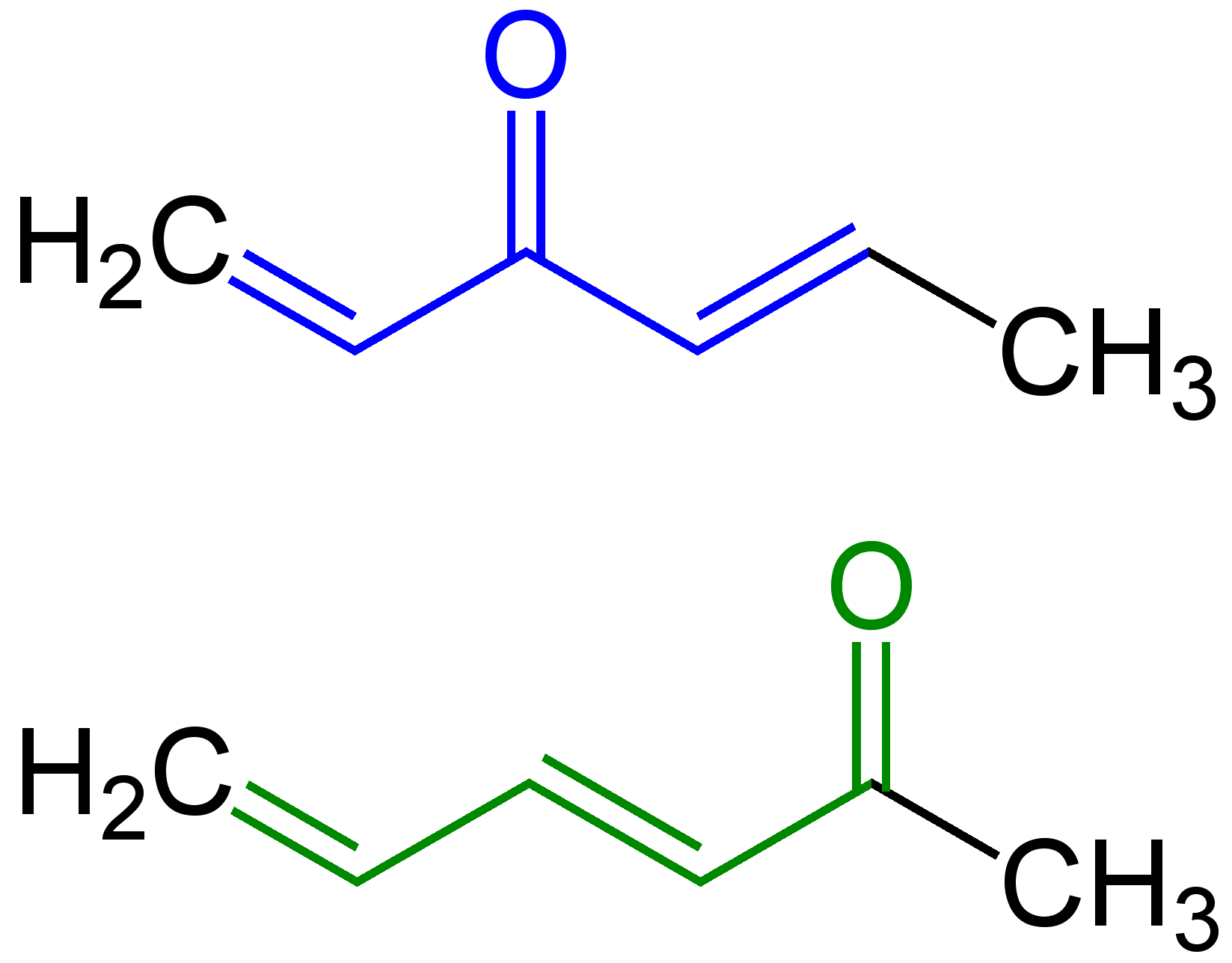 Conjugation_&–Cross_Conjugation